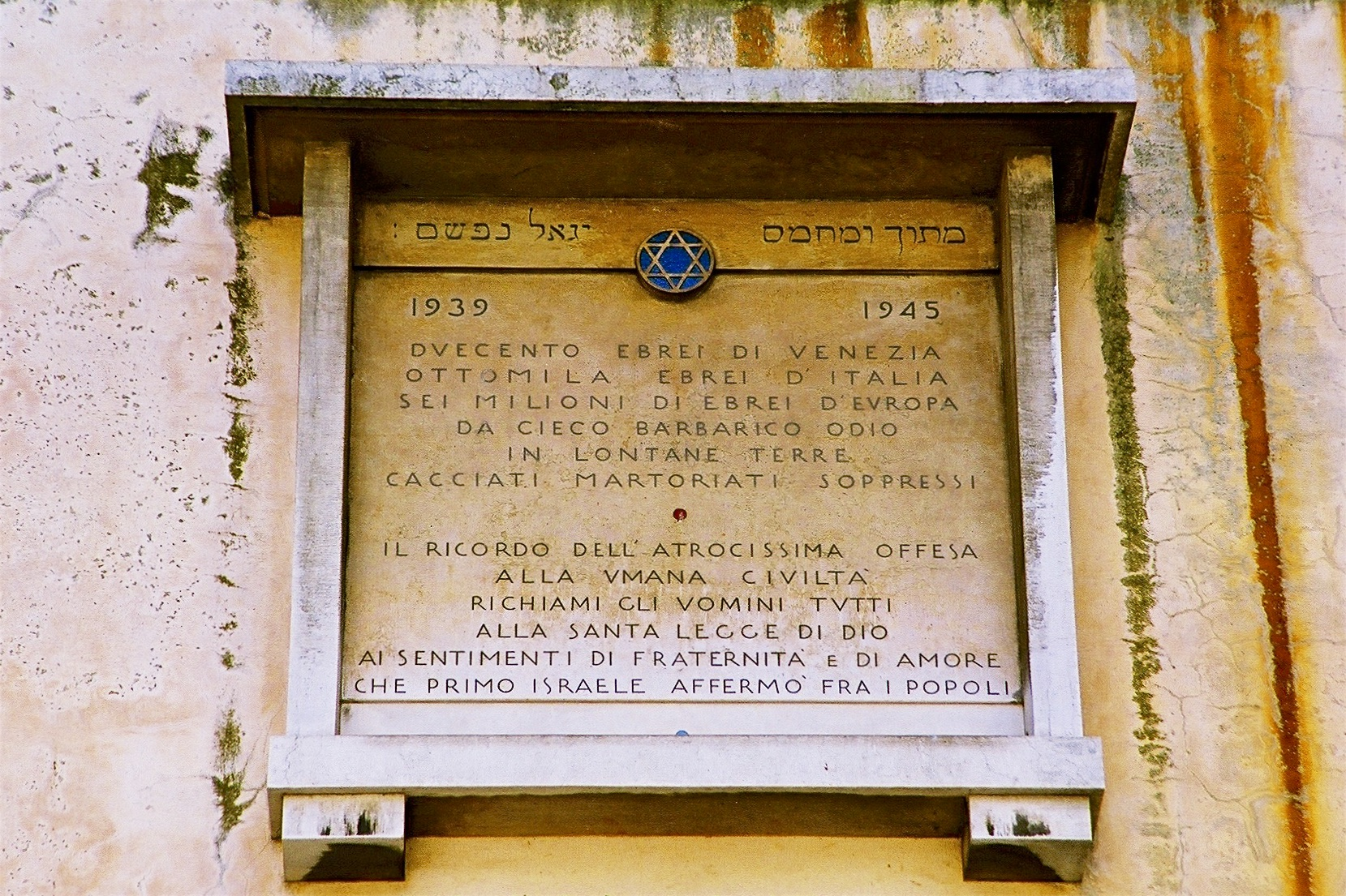 This is a photograph of a memorial plaque to Venice's Holocaust victims. It is found in Campo del Ghetto Nuovo, Venice, the first ghetto in Europe.